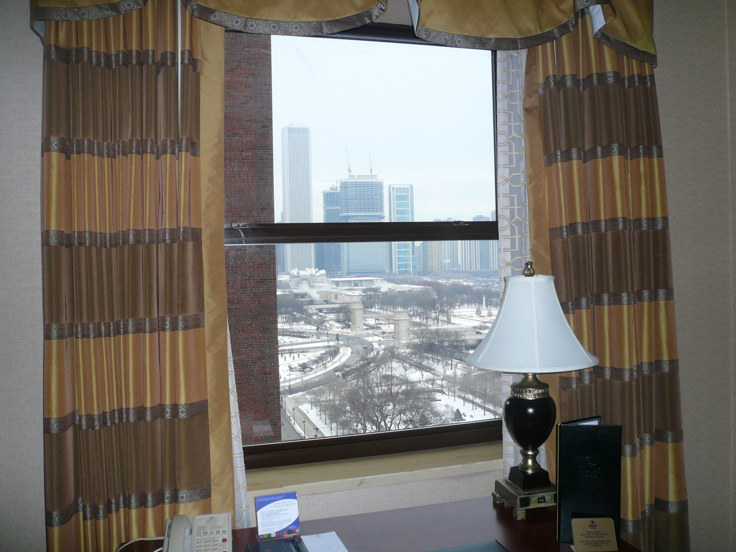 View from Chicago Hilton hotel room window towards downtown